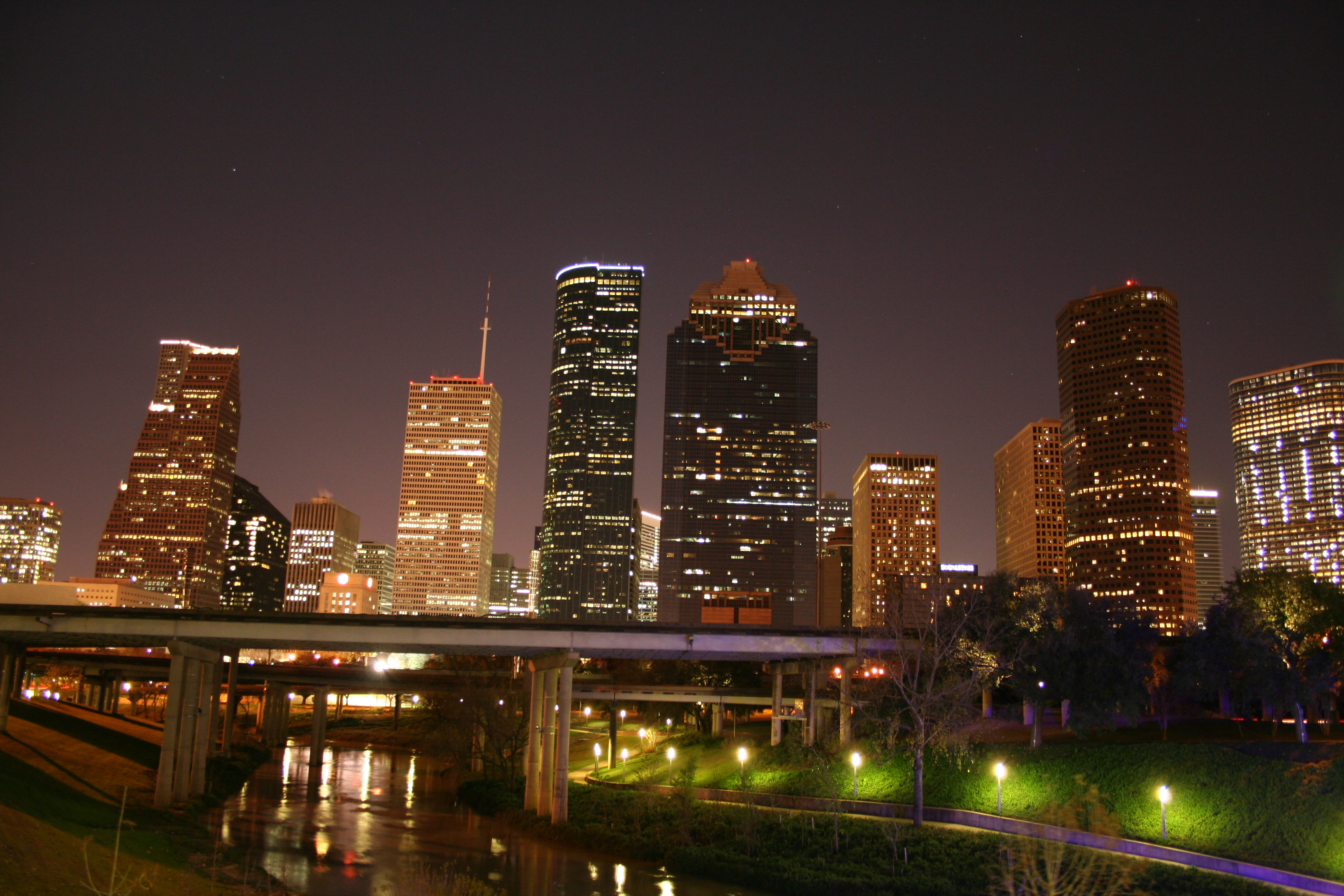 Downtown Houston Skyline at Night